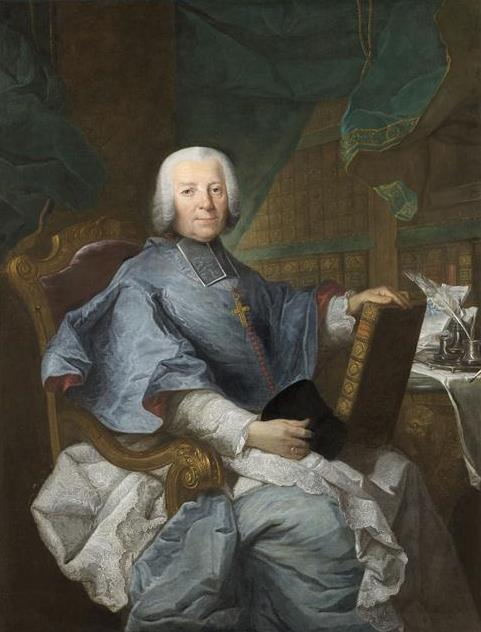 Pierre-Jules-César de Rochechouart (1698-1781), bishop of Evreux and Bayeux